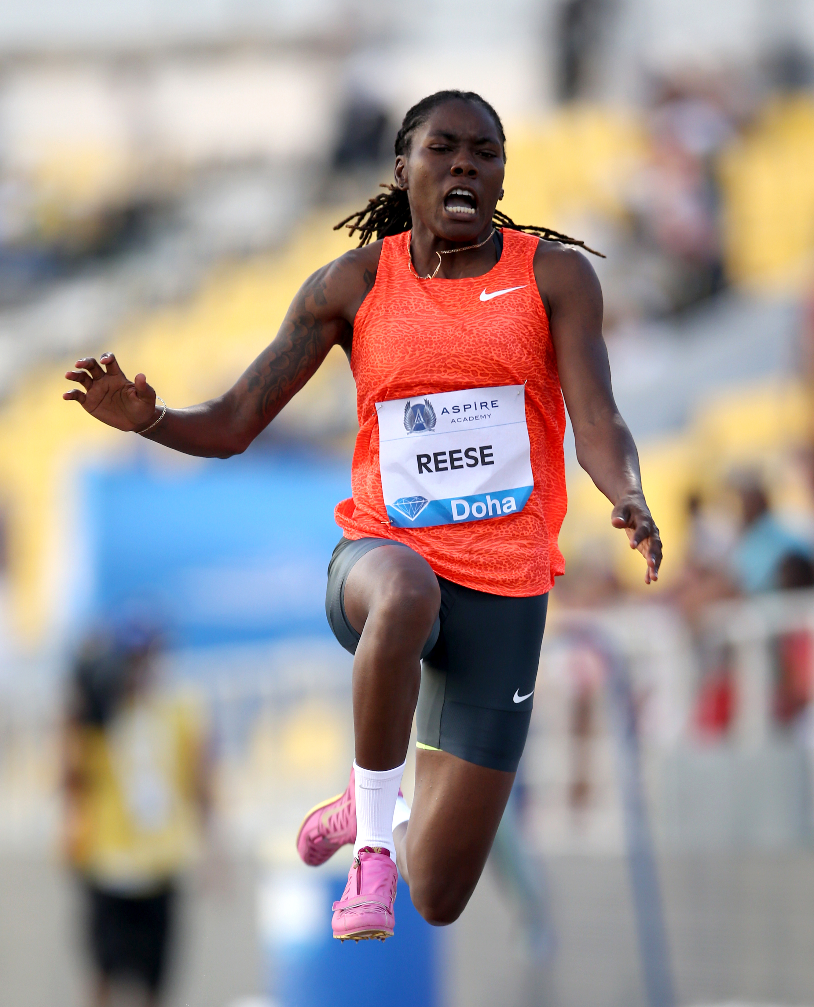 American long jumper Brittney Reese competes in the Doha Diamond League. Pic by Mohan